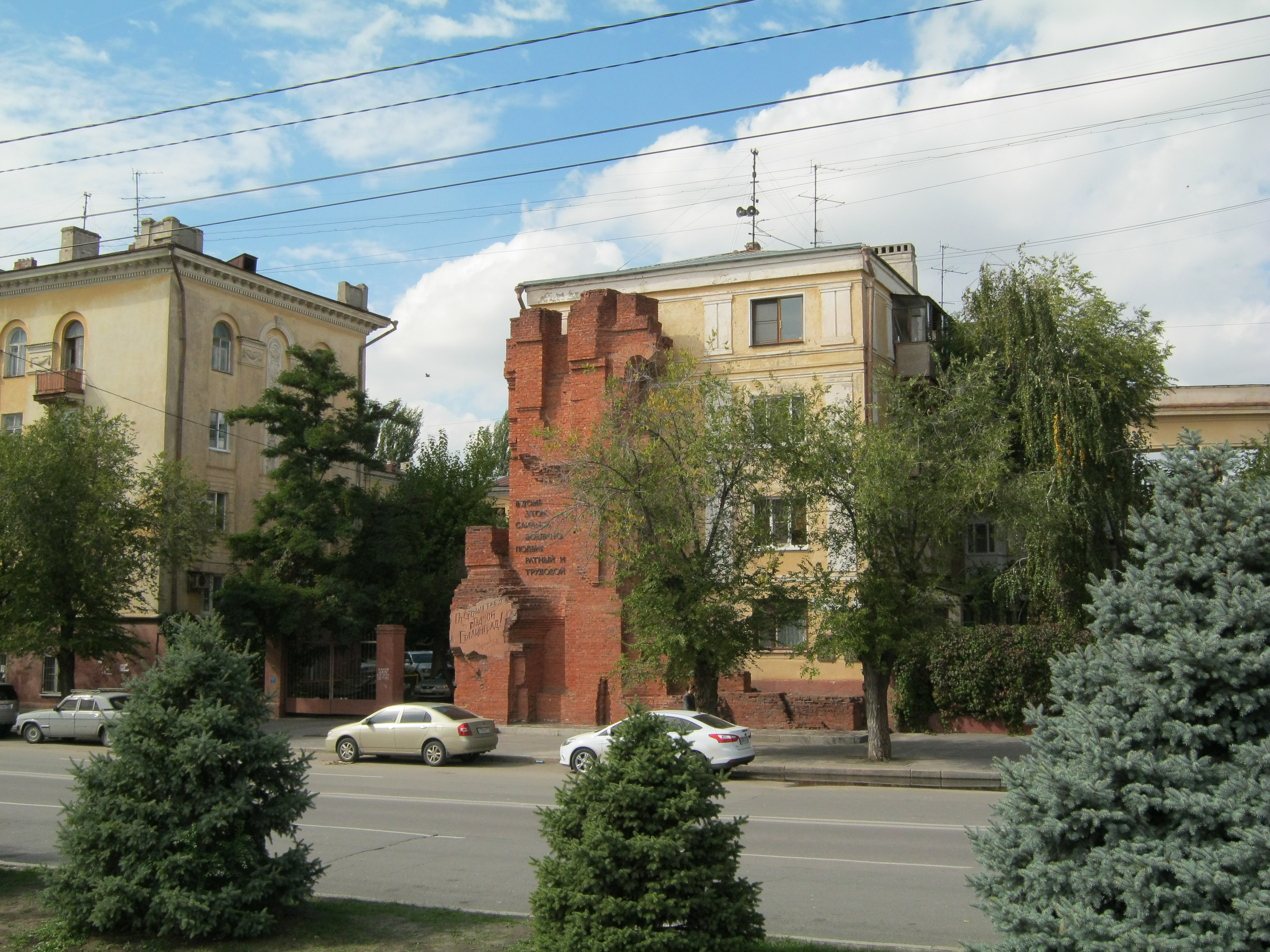 Pavlov's House